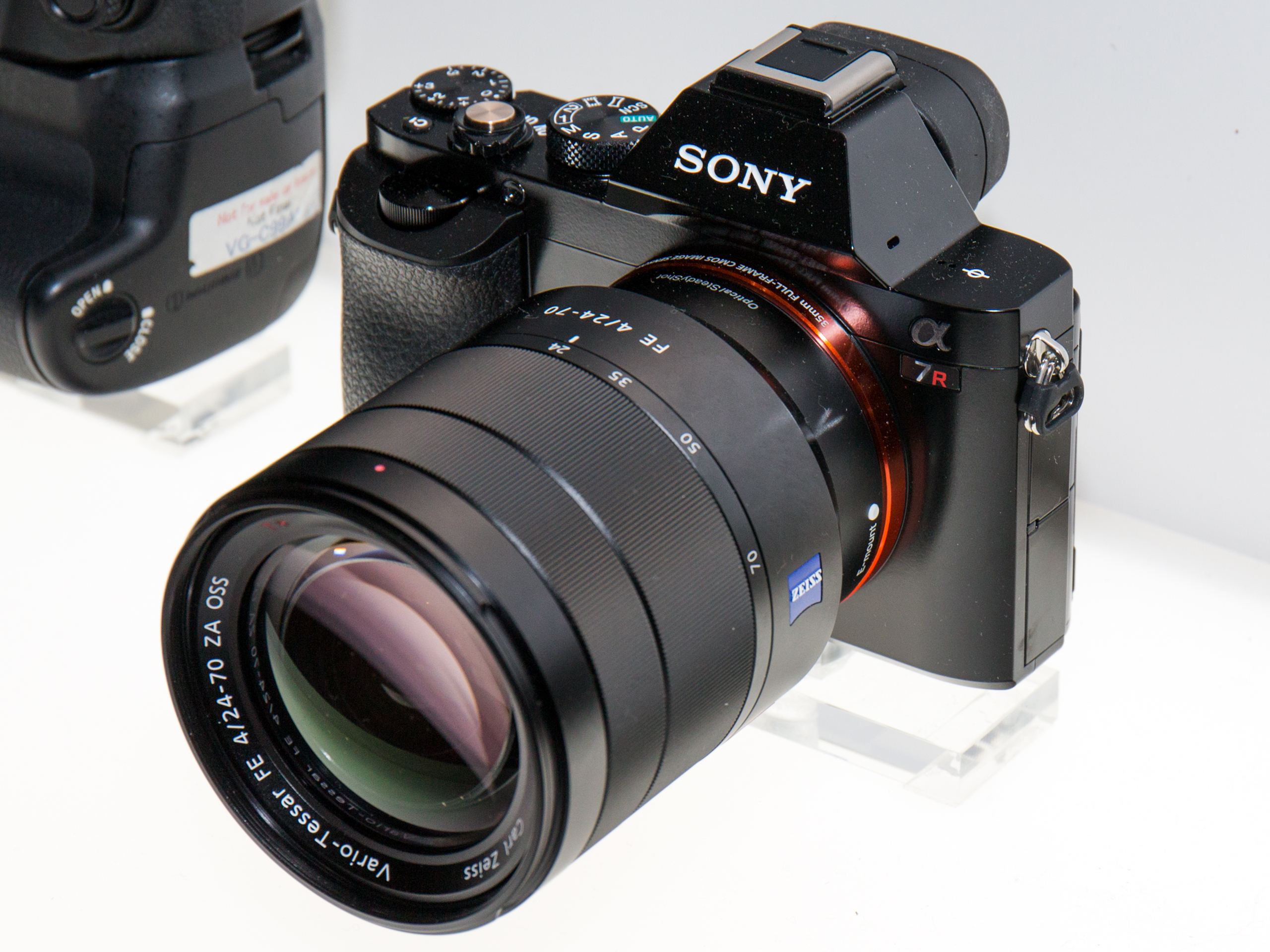 CP+ 2014: 2013 Sony Alpha 7R